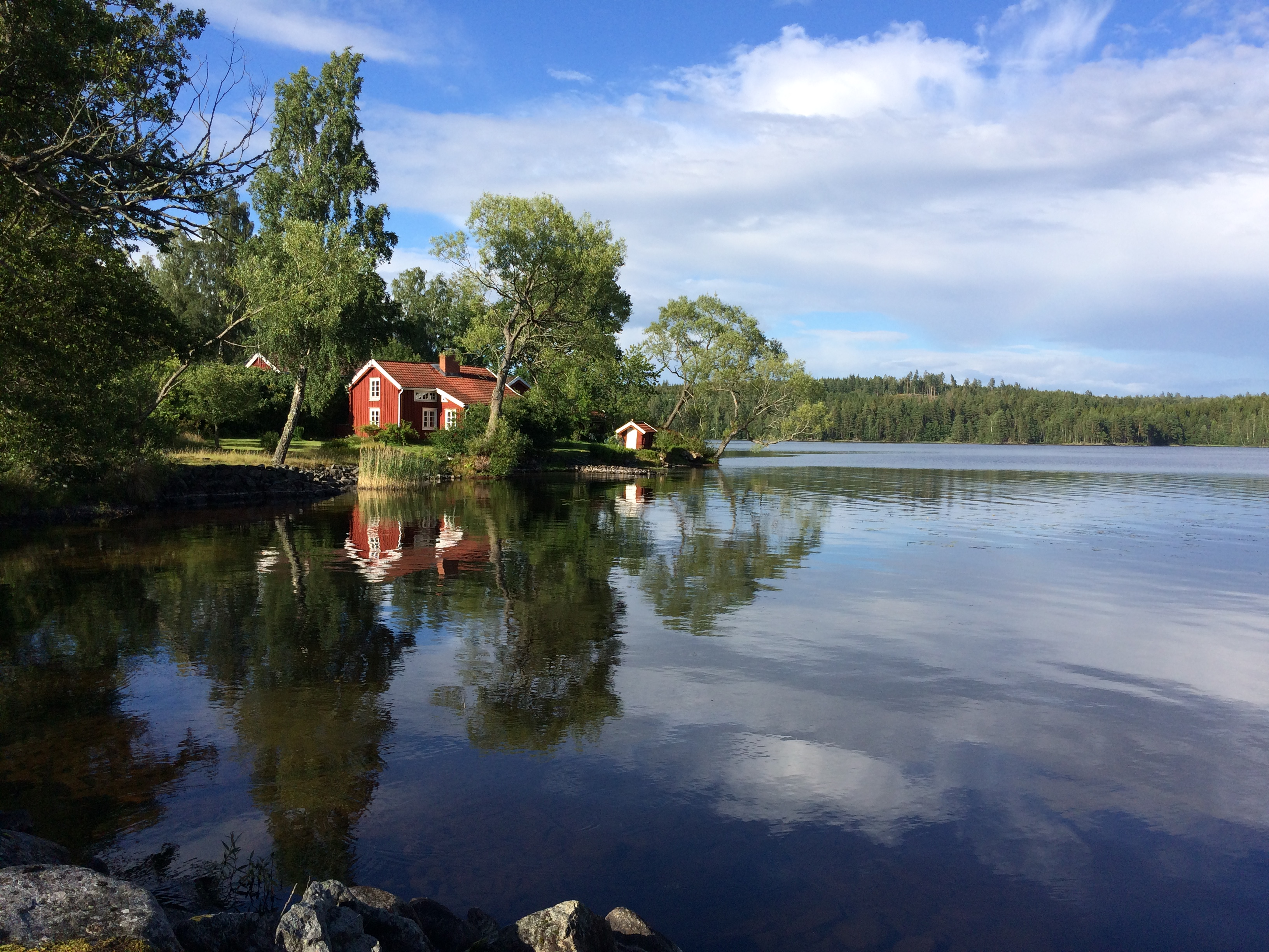 The western side of Hjortesjön (Hjortsjön or Hjorten) close to Virserum, in Vetlanda Municipality. Saturday, 5 August 2017.